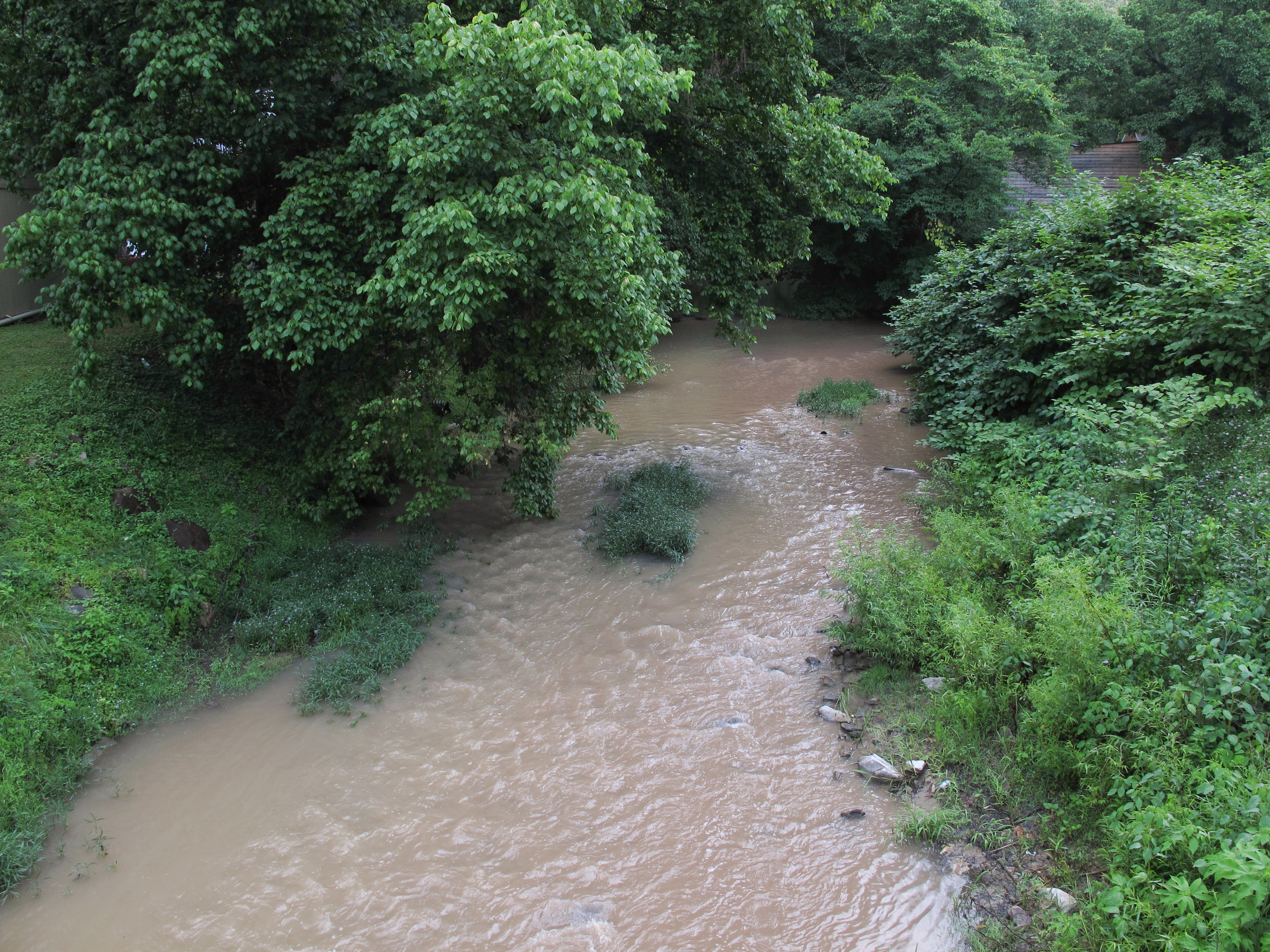 Davis Creek in the community of Davis Creek, West Virginia, as viewed upstream from West Virginia Route 214.